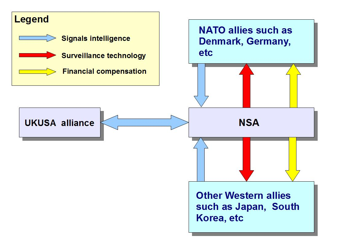 Under the 1948 UKUSA Agreement, the NSA acts as the head intelligence agency, with America's Anglo allies acting as "second parties." Even though most NATO countries and a few others, including Japan and Korea, have since joined the UKUSA society, they are deemed "third parties"--meaning they get to funnel intelligence to the NSA but are rarely allowed to see anything from other contributors. The NSA compensates them by sending them cash and surveillance technology. (